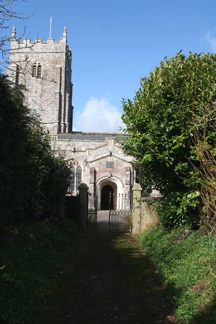 Clyst Hydon: St Andrew’s church. A 15th century structure, which was dedicated to St Mary in 1470. Looking north